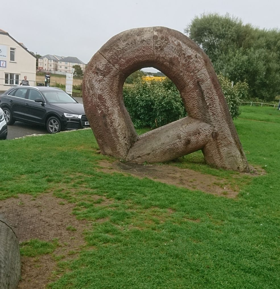 Second part of a wooden sculpture by Daniel Sodhi-Miles, beside the Bude Canal in Cornwall. It is inscribed in Cornish and English with "If a man could have the strength of the sea, he’d be a strong man.” Part of the other part of the sculpture is just visible in the bottom left corner.